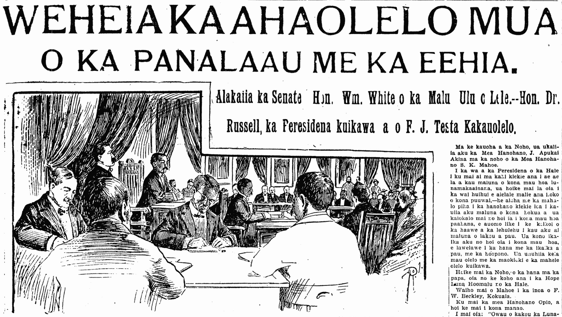 Weheia Kaahuaolelo Mua O Ka Panalaau Me Ka Eehia. Alakaiia ka Senate Hon. Wm. White o ka Malu Ulu o Lelei. -- Hon. Dr. Russell, ka Peresidena kuikawa a o F. J. Testa Kakauolelo. Translated: “Independent Home Rule Party leaders White, Russel, and Testa Open Hawai‘i’s First Territorial Legislature With Dignity”